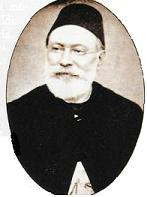 Portrait of Hüseyin Haki Efendi.